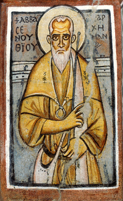 Shenoute. Secco painting, ca. 7th century. North lobe of the sanctuary, Red Monastery Church, near Sohag, Egypt